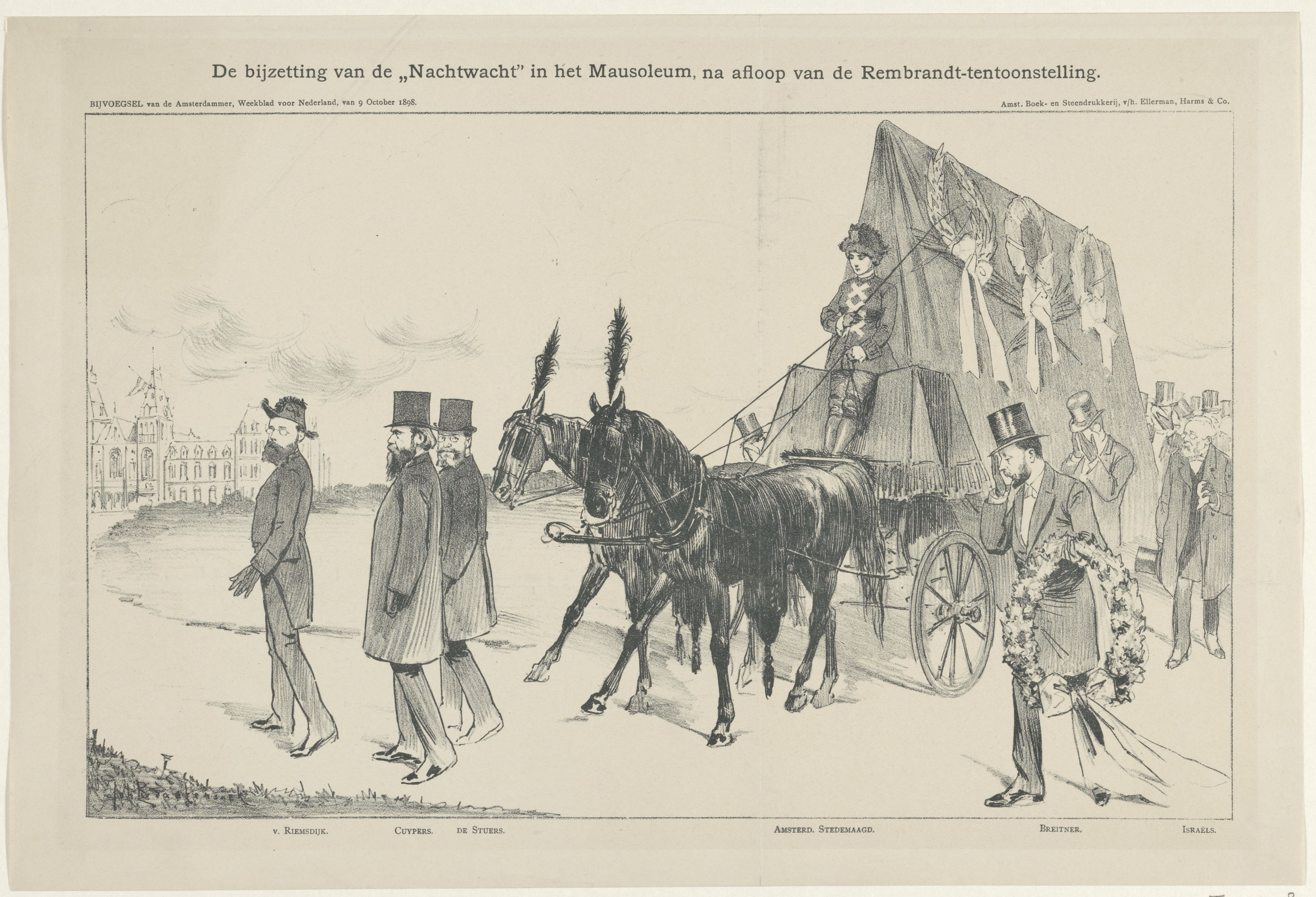 Johan Braakensiek, De funeral of the Night Watch in the Mausoleum, after the Rembrand exhibition, caricature in De Amsterdammer of October 9th, 1898